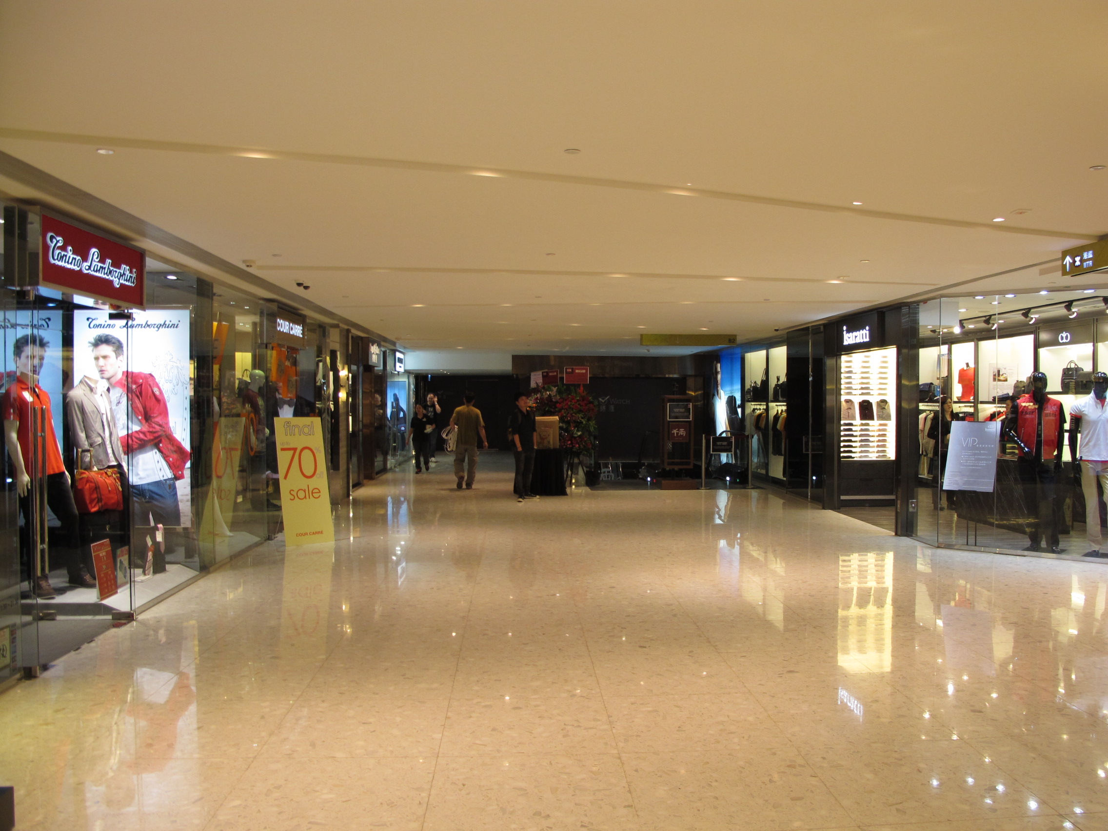 Kowloon Hotel Shopping Arcade